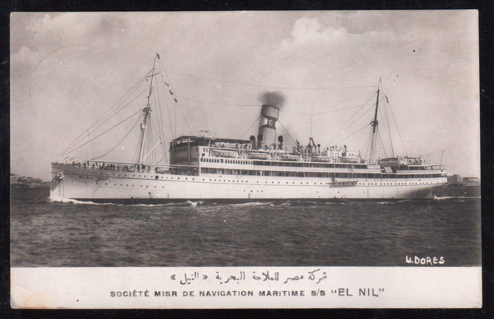 1937 SS el-Nil ship